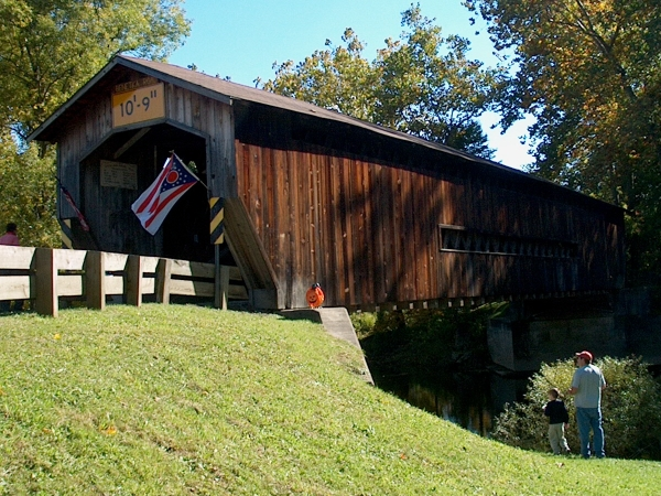 A photograph of Benetka Road Covered Bridge. The bridge is located in Ashtabula County, Ohio.